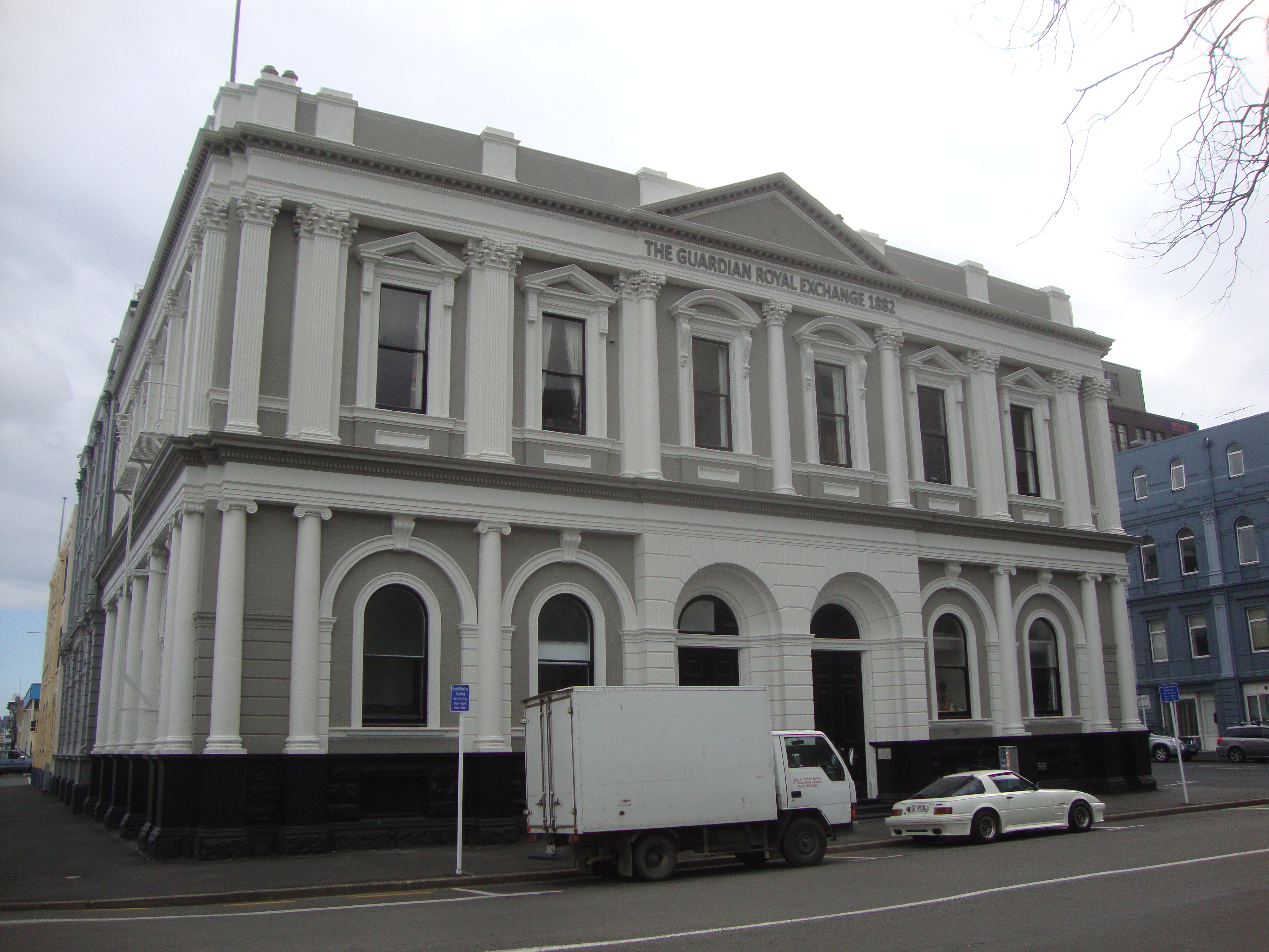 Guardian Royal Exchange Building in November 2012.